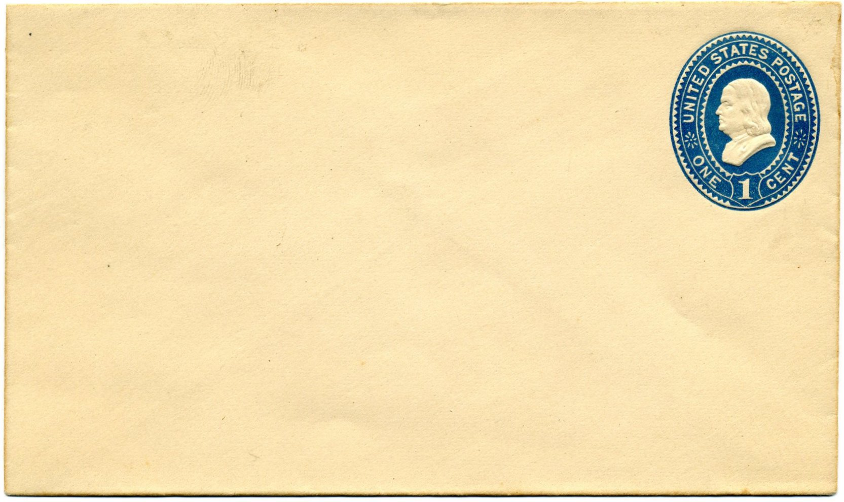 1 cent blue on white envelope of the 1886 Plimpton and Morgan issue. Size 7 (83 x 139 mm); Watermark 8, Die 83. Benjamin Franklin depicted on indicium.